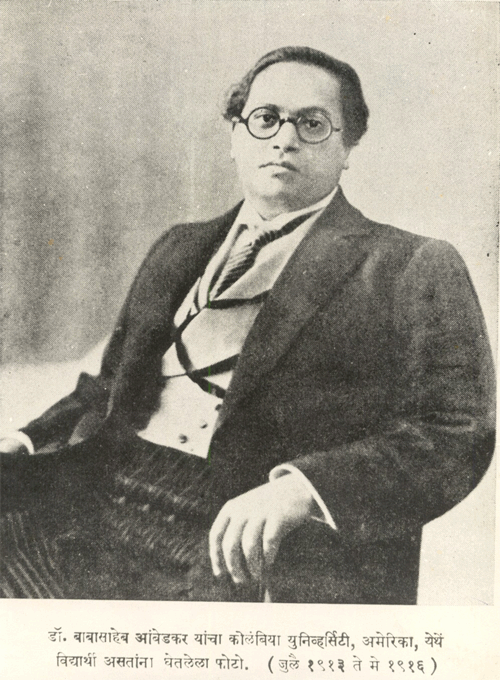 A photo of Dr. Ambedkar during his years at Columbia, july 1913 - may 1916 (downloaded Sept. 2002)